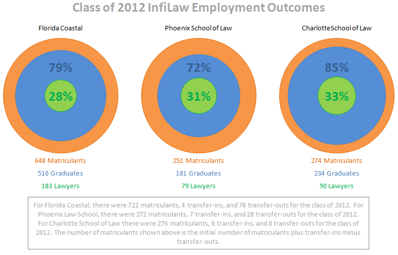 chart